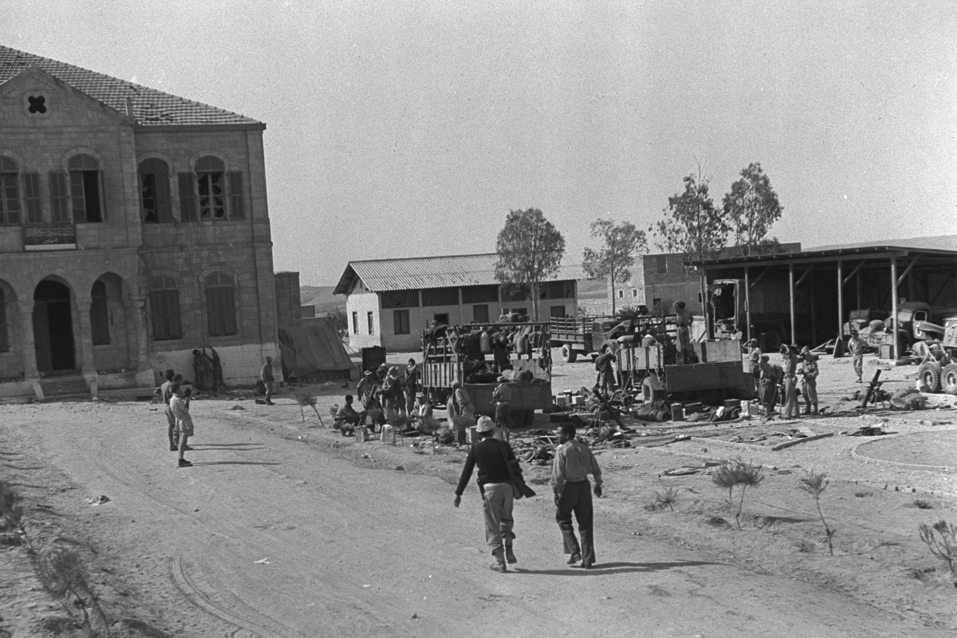 WAR OF INDEPENDENCE, BATTLE FOR BEER SHEVA. IN THE PHOTO, IDF SOLDIERS IN THE STREETS OF BEER SHEVA AFTER THE SURRENDER OF THE CITY.